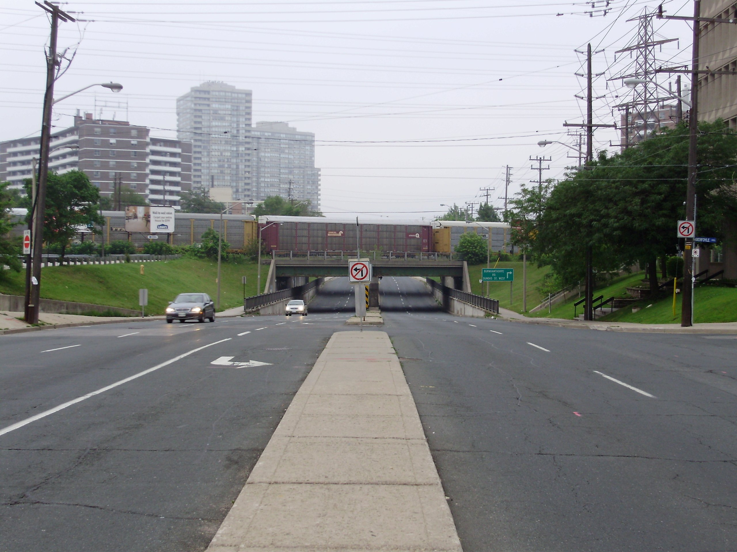 Looking north up Islington Avenue at its intersection with Bloor Street West, dipping below a railway bridge, in Toronto, Canada.